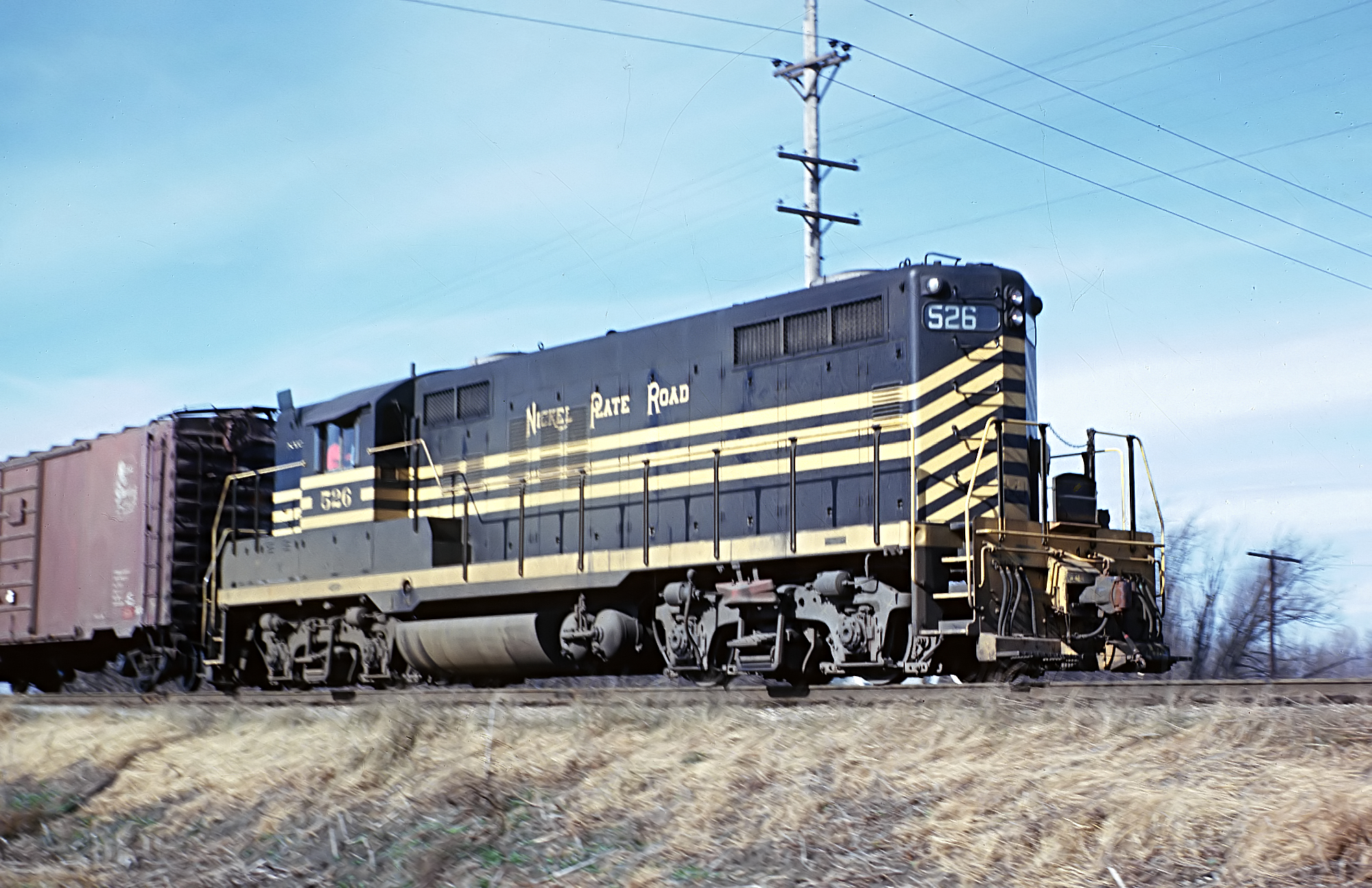 A Roger Puta photograph